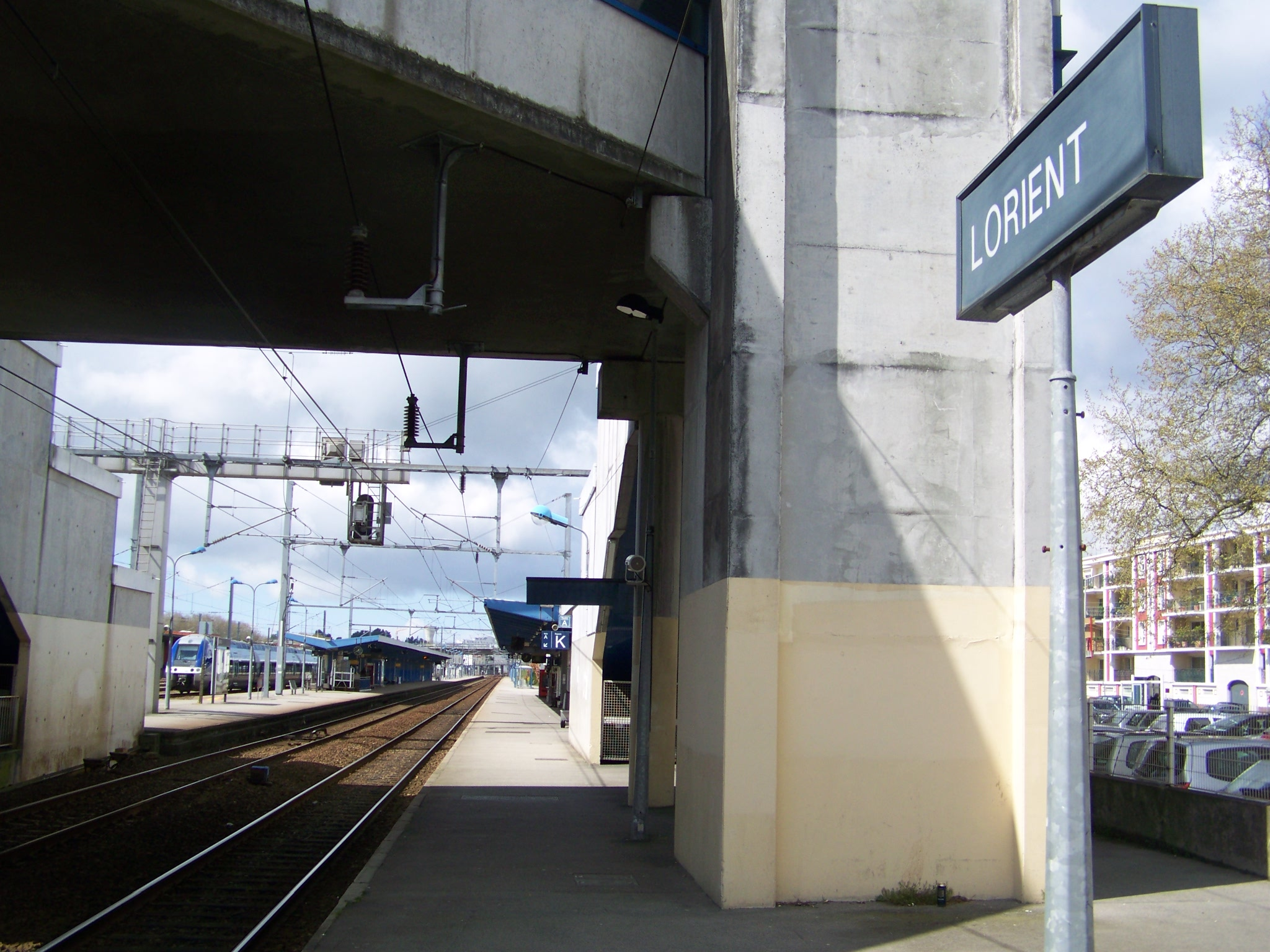 Platforms and tracks of Lorient train station, in Morbihan, Brittany, France.